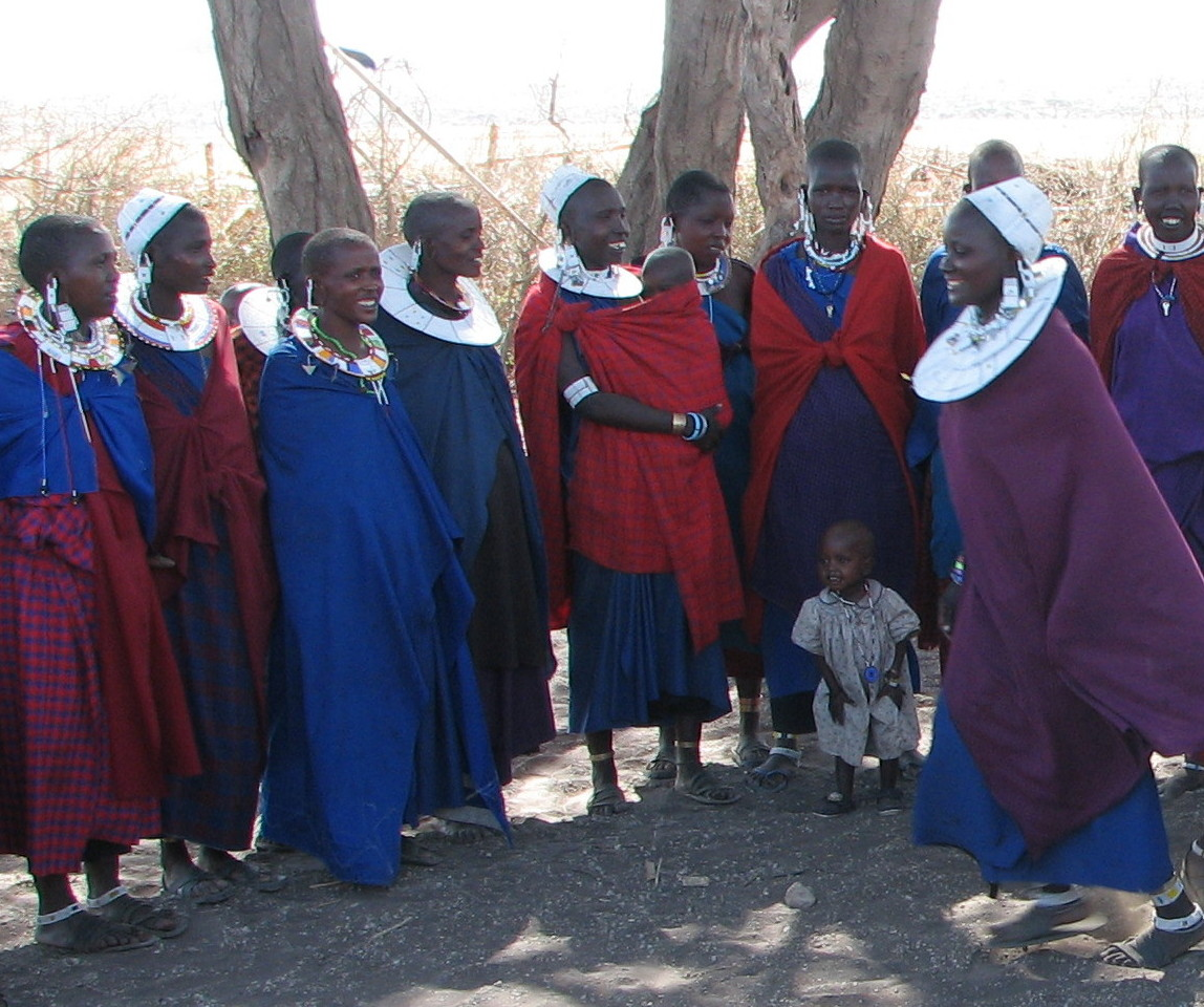 Steve Pastor eastern Serengeti, October 2006